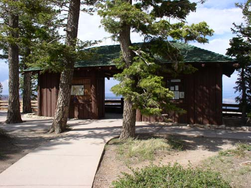 Rainbow Point Overlook Shelter, Bryce Canyon National Park, Utah, USA. Listed on the National Register of Historic Places.